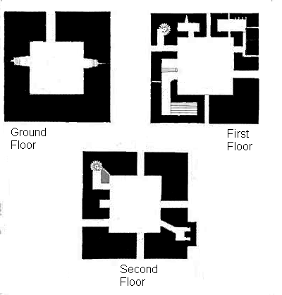 1825 plan of Guildford Castle